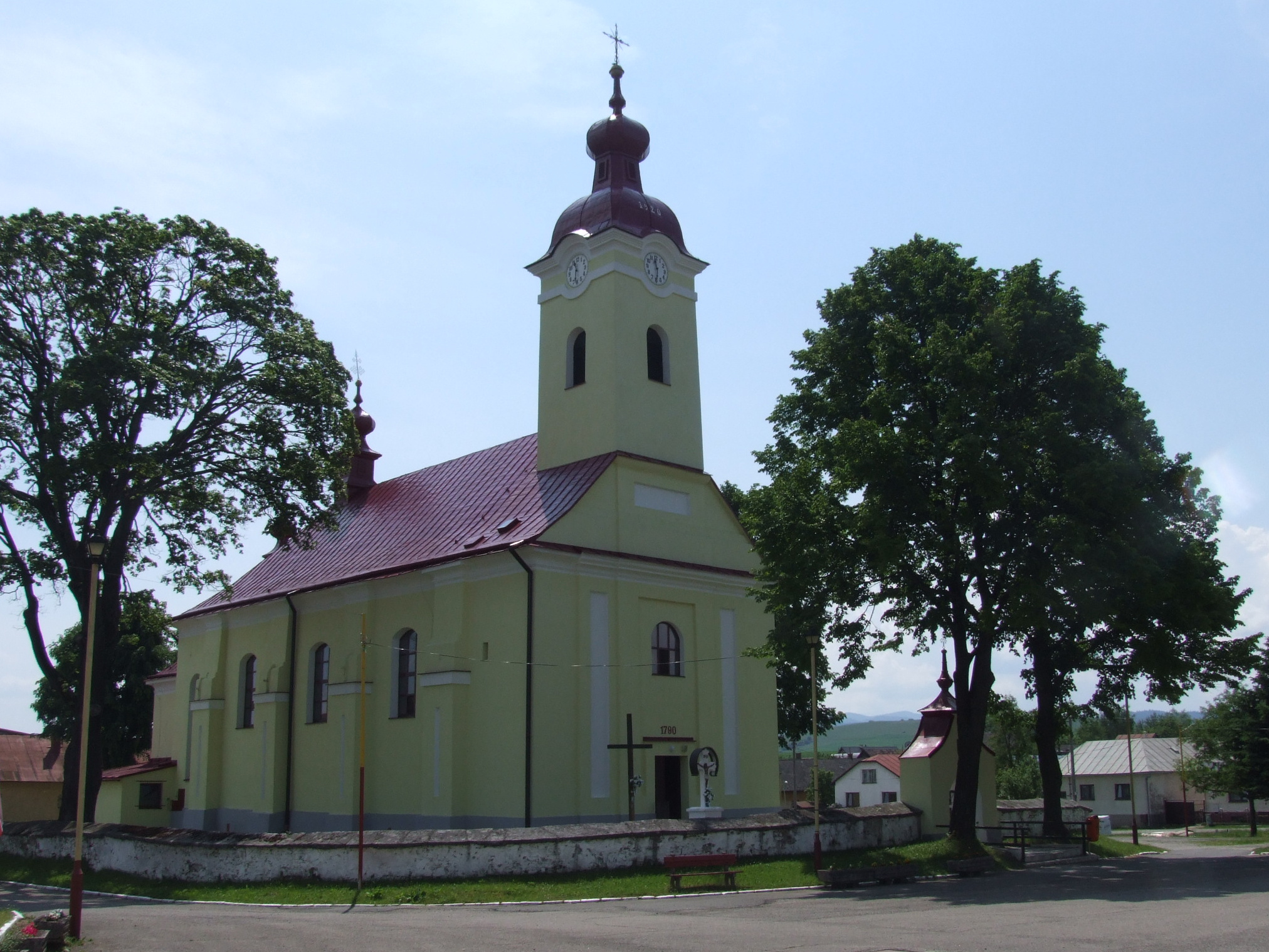 Kamienka (okres Stará Ľubovňa). Kamionka (powiat Stara Lubowla) This medium shows the protected monument with the number 710-892/0 in the Slovak Republic.